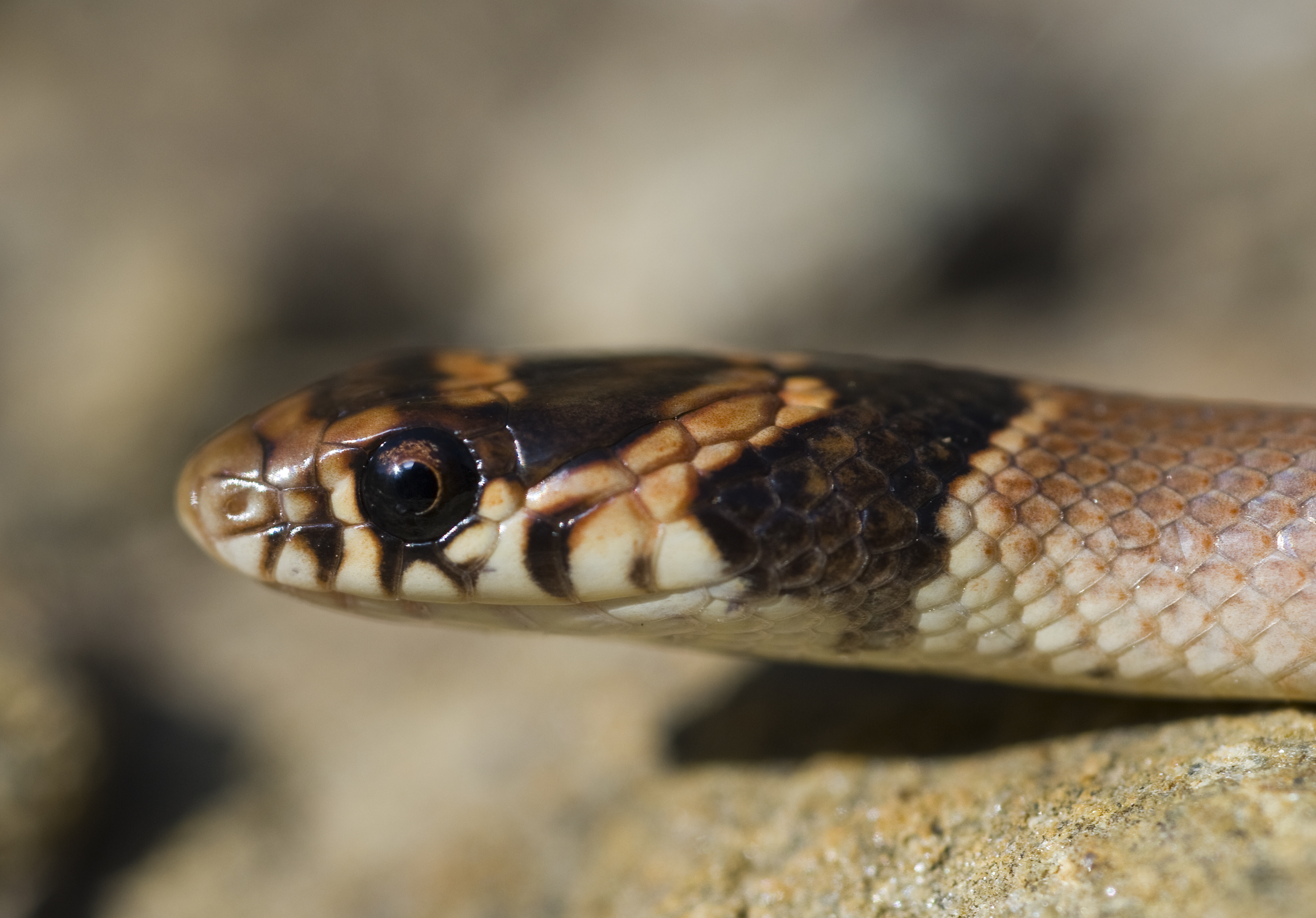 Eirenis modestus portrait of a juvenile specimen